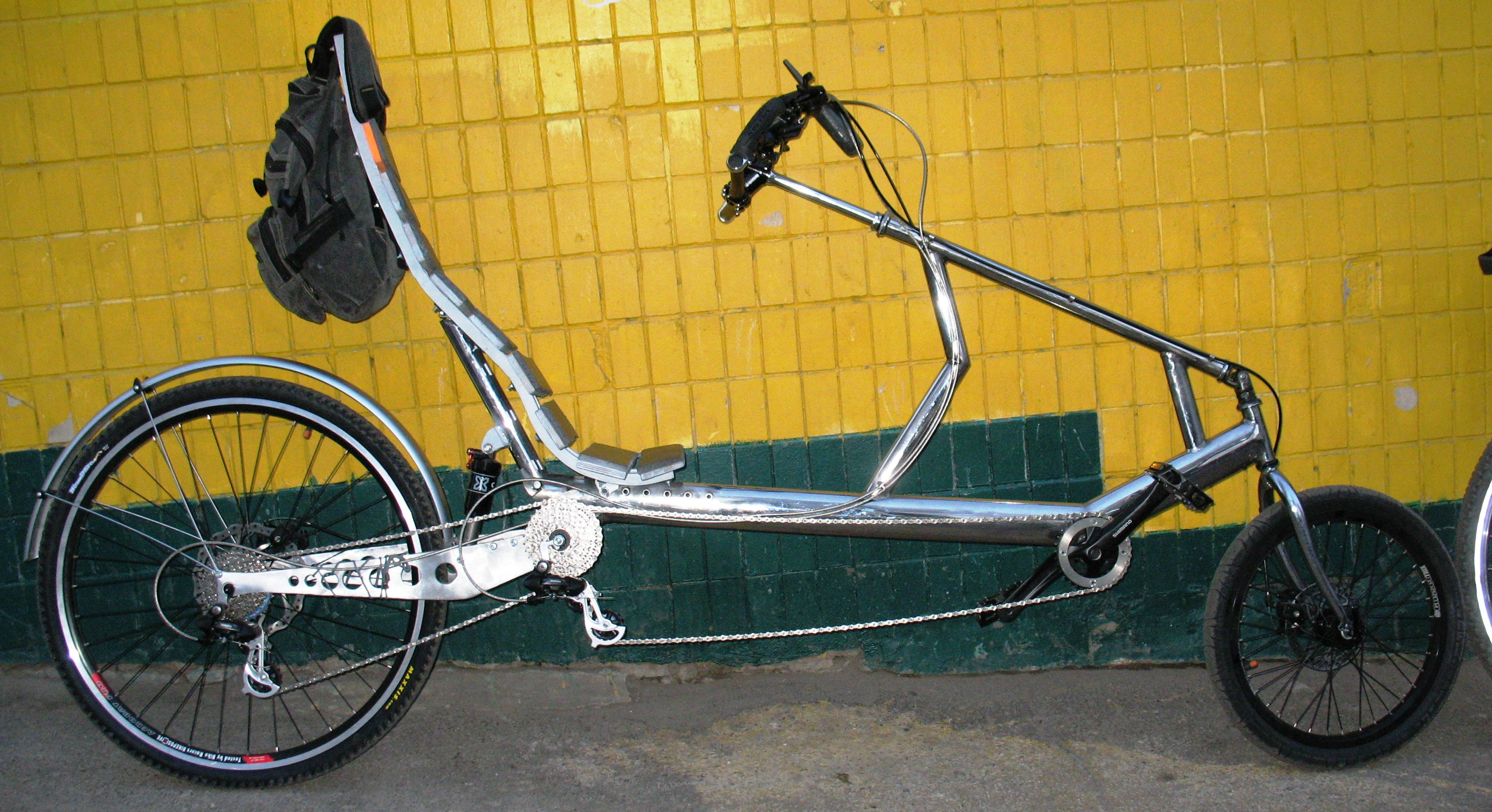 Long-wheel-base low-rider homemade recumbent bicycle (UA)